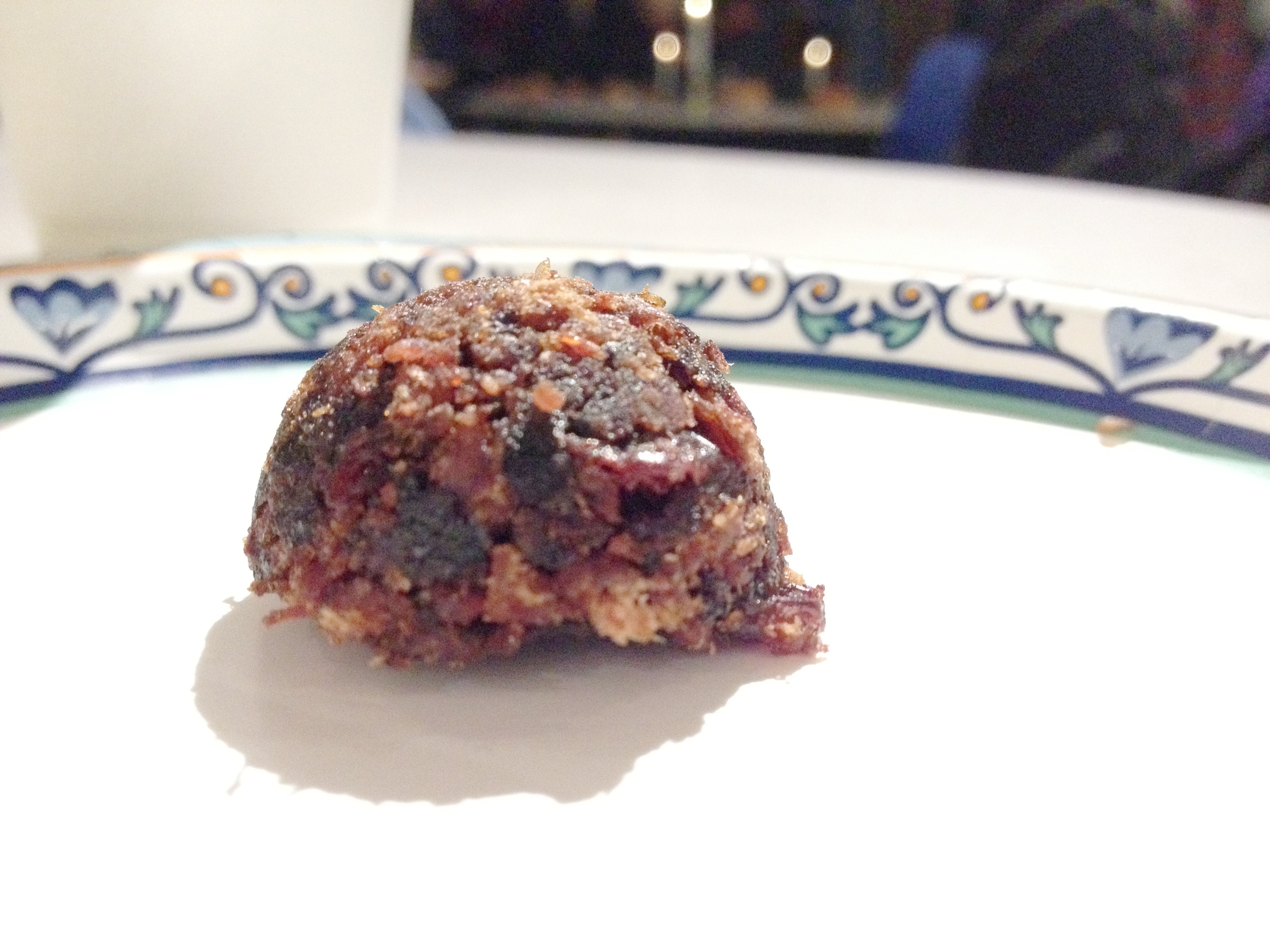 BC Bites: "Rich in Food"